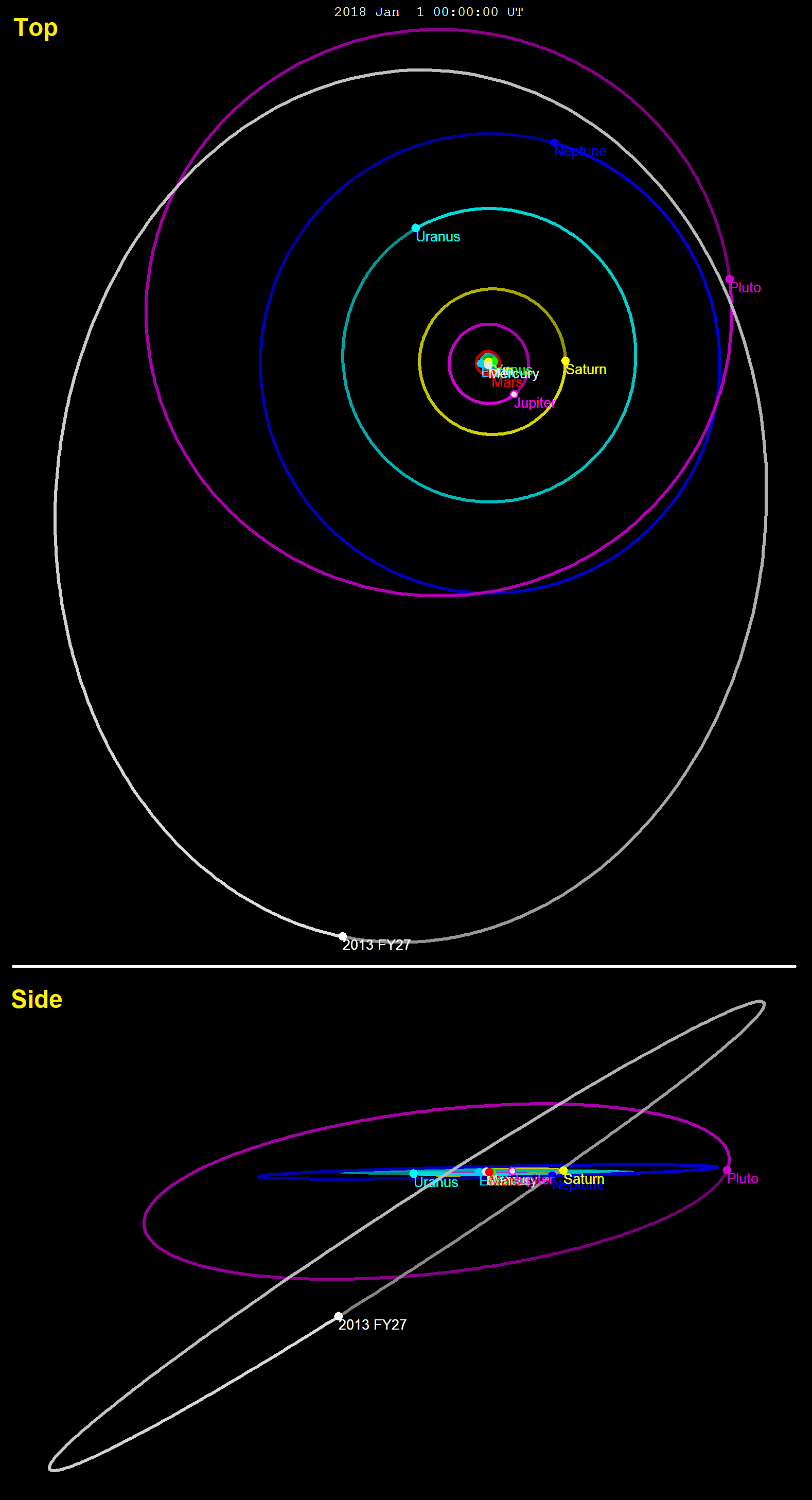 en:2013_FY27 orbit, positions for 2018